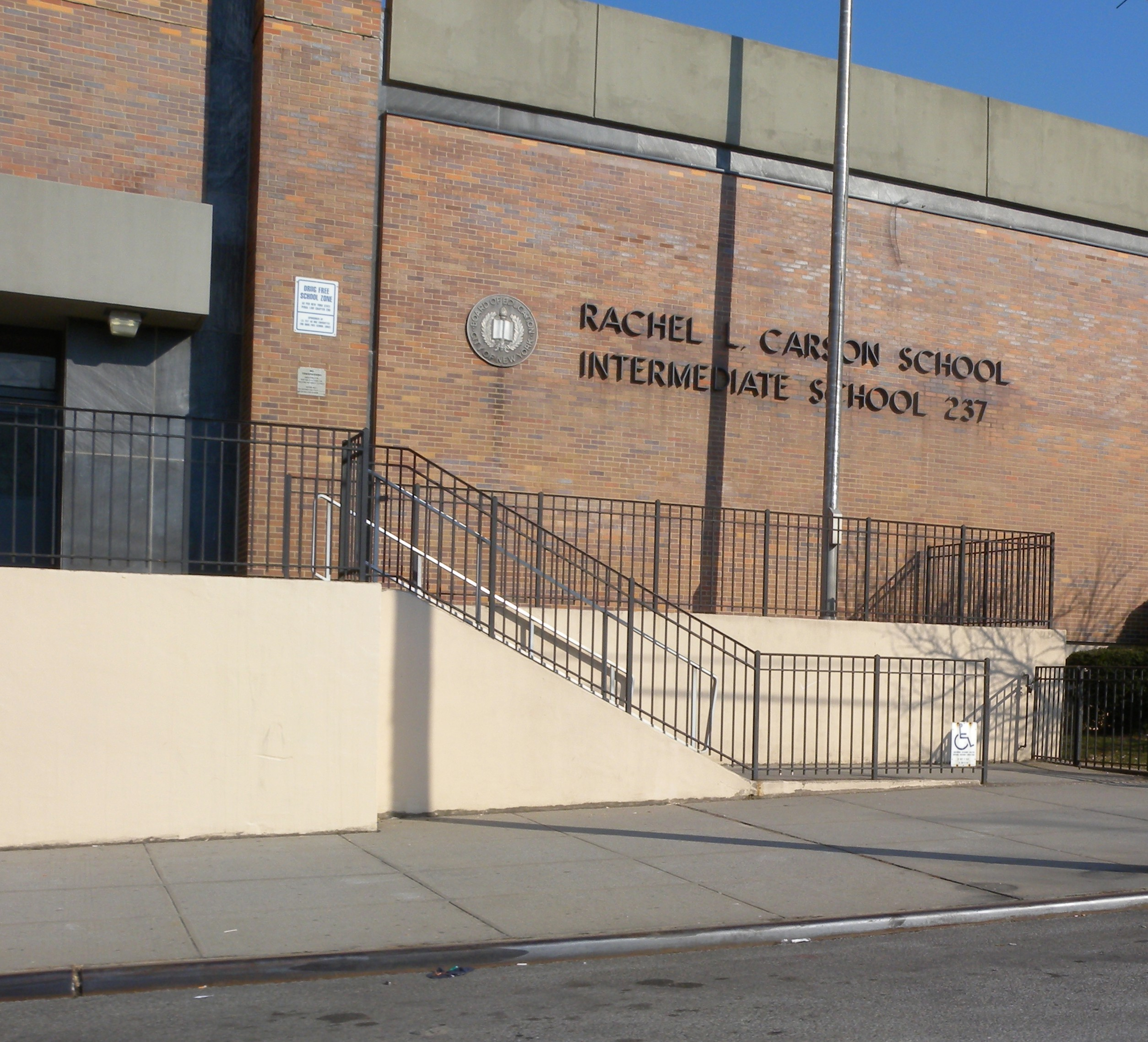 Rachel Carson School Intermediate School 237 - Looking east while pedaling by IS 237 on a sunny afternoon.